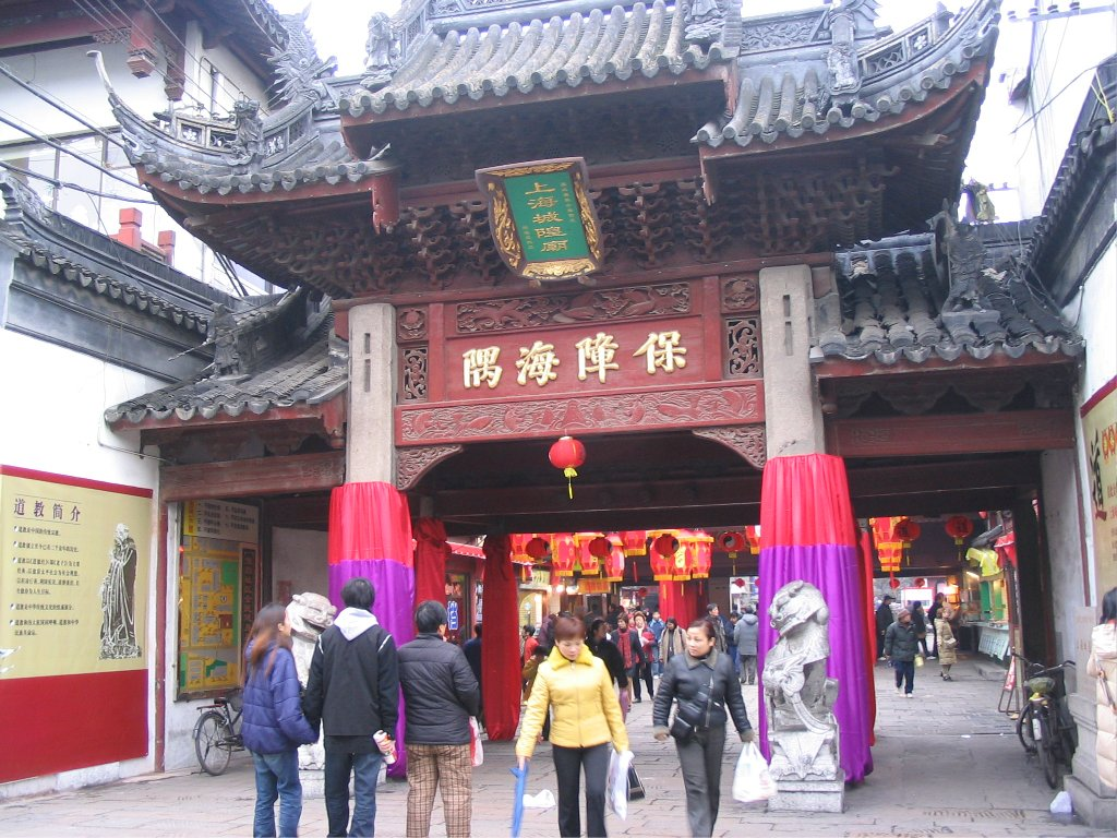 城隍廟入口 Entrance of City God Temple